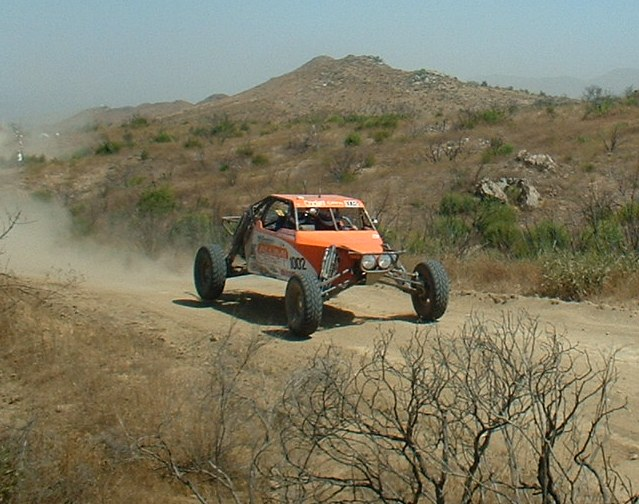 SCORE Class 10